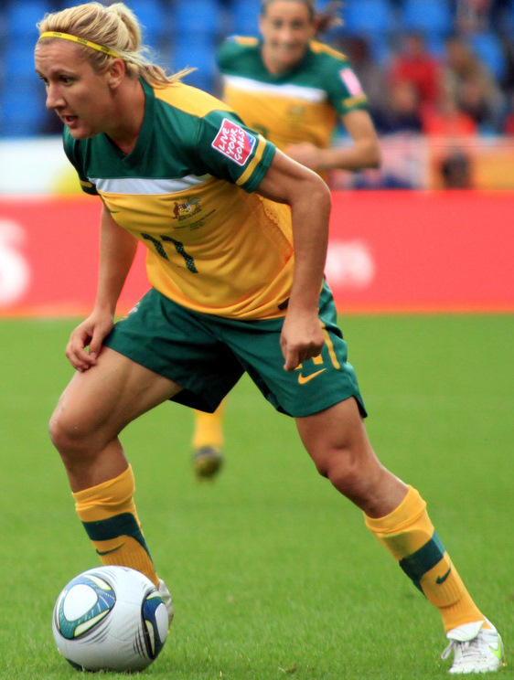 Lisa De Vanna playing for Australia in the 2011 FIFA Women's World Cup